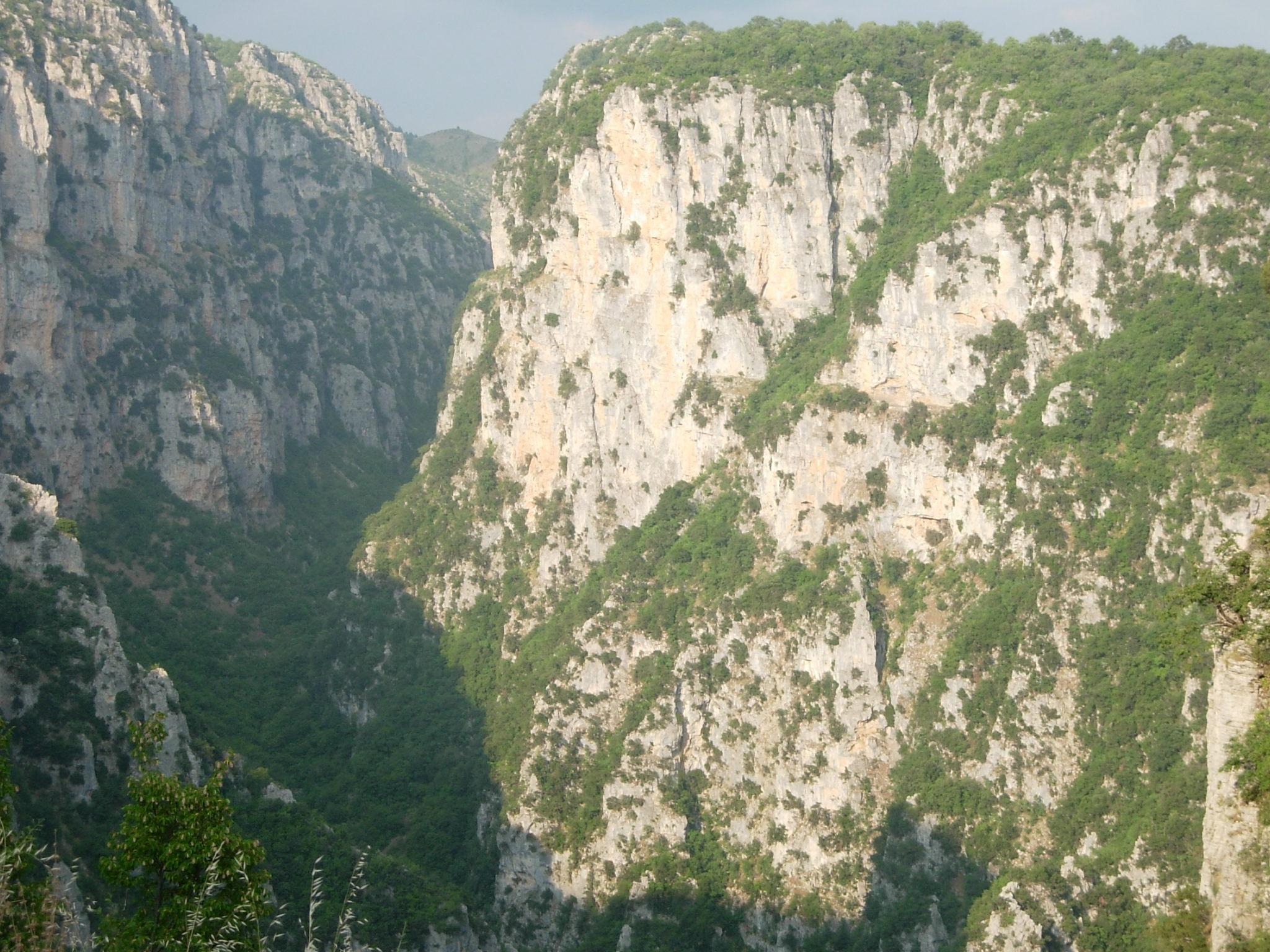 own work Août 2005 Gorges du Vikos, Grèce, Epire, parc national de Vikos-Aoos.